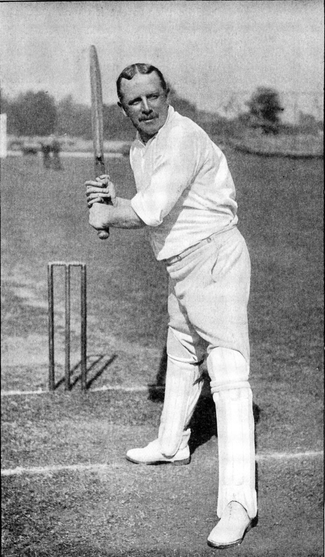 "A. N. Hornby."